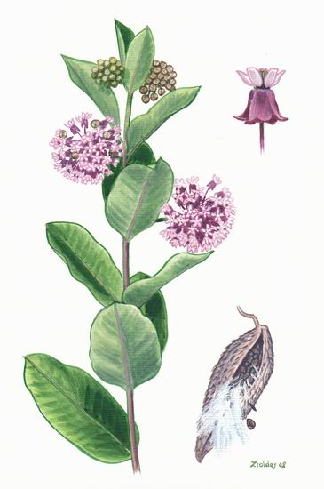 This plant is Asclepias syriaca